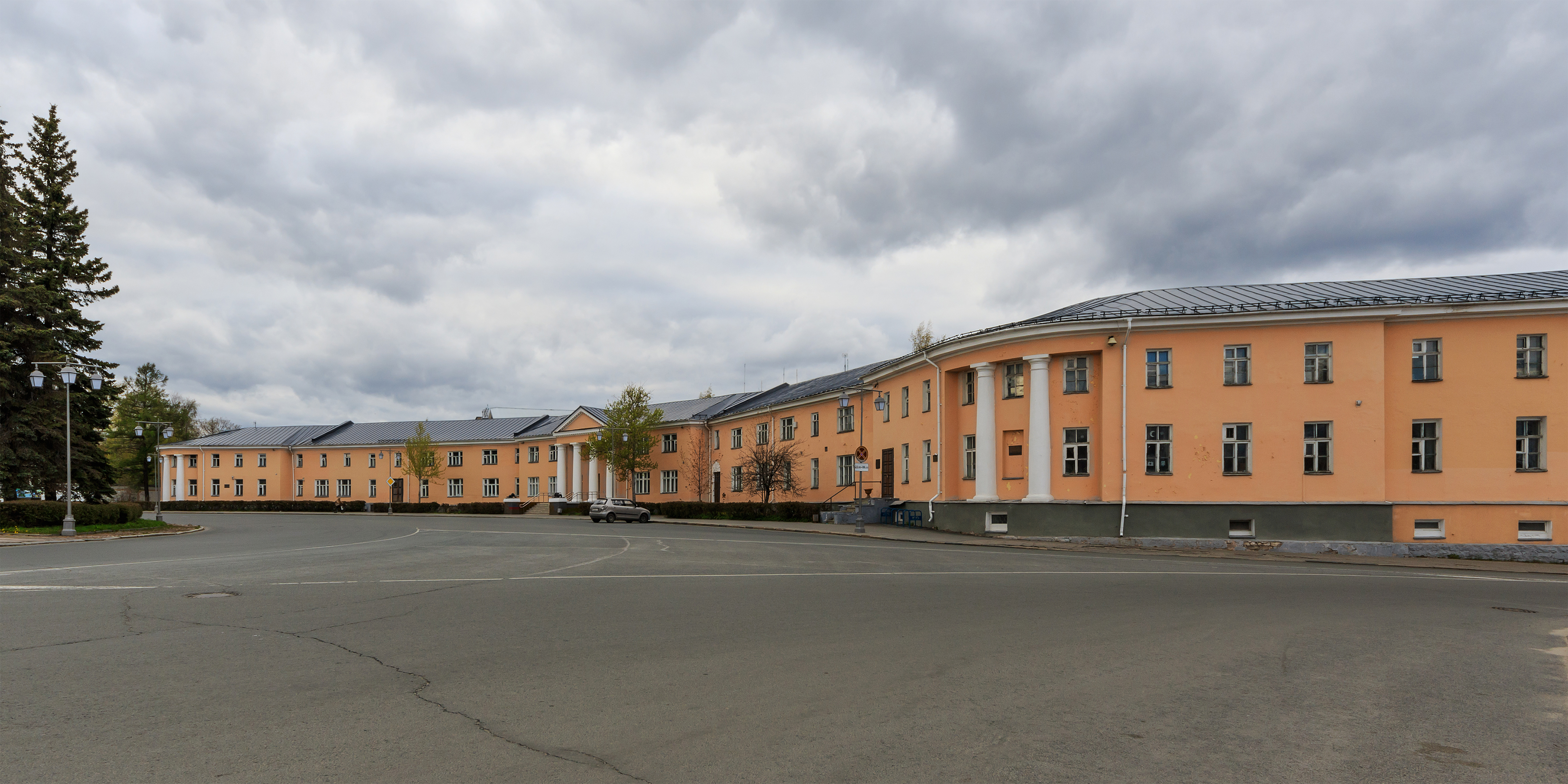 Ensemble of Lenin Square in Petrozavodsk, Republic of Karelia (Russia).